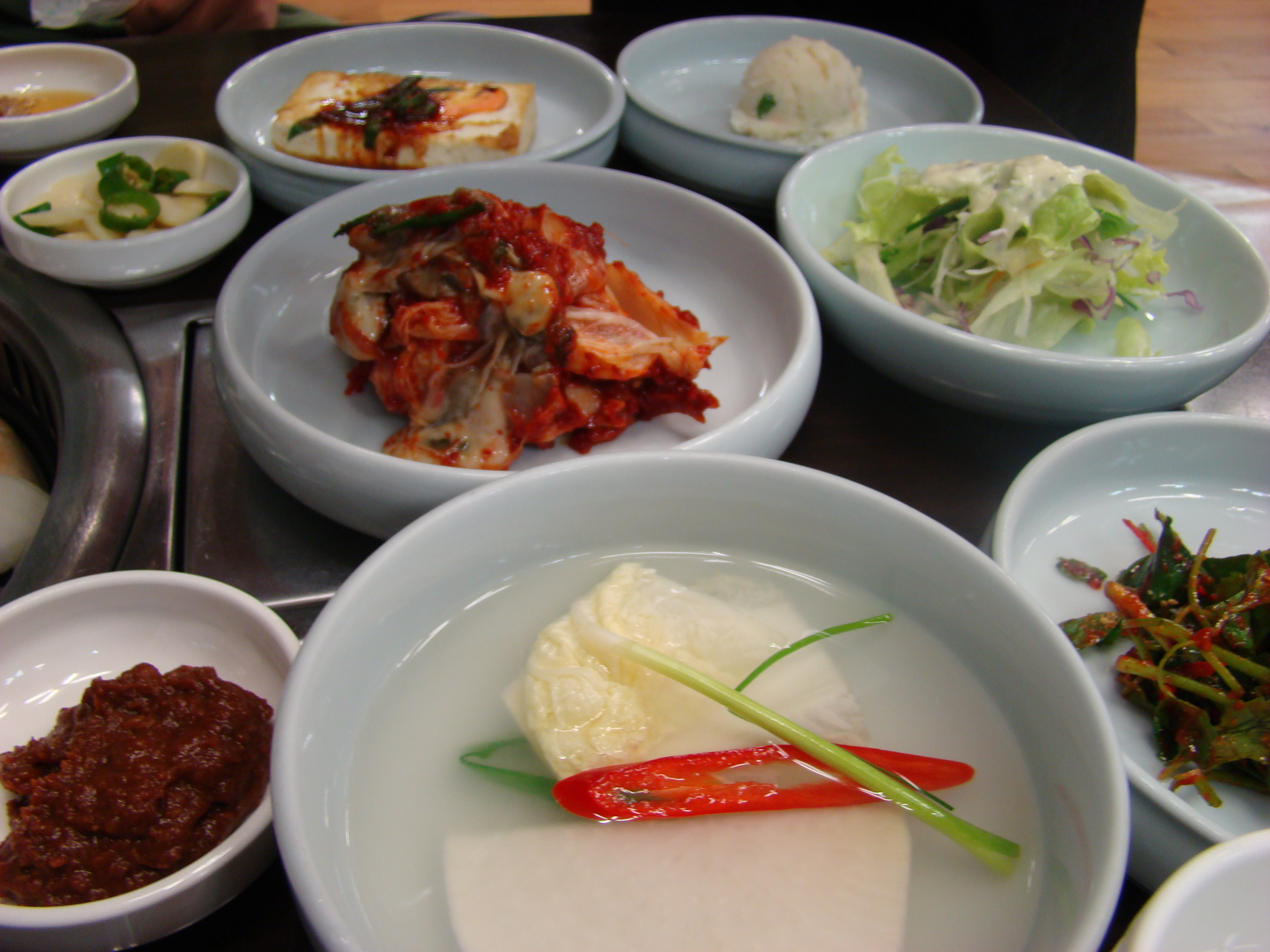 Banchan, a small dish accompanied with a main dish in Korean cuisine.